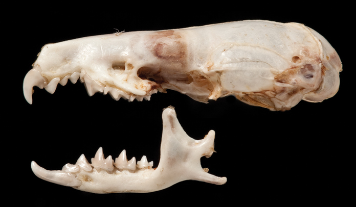 Left lateral view of skull and mandibles of Crocidura tanakae